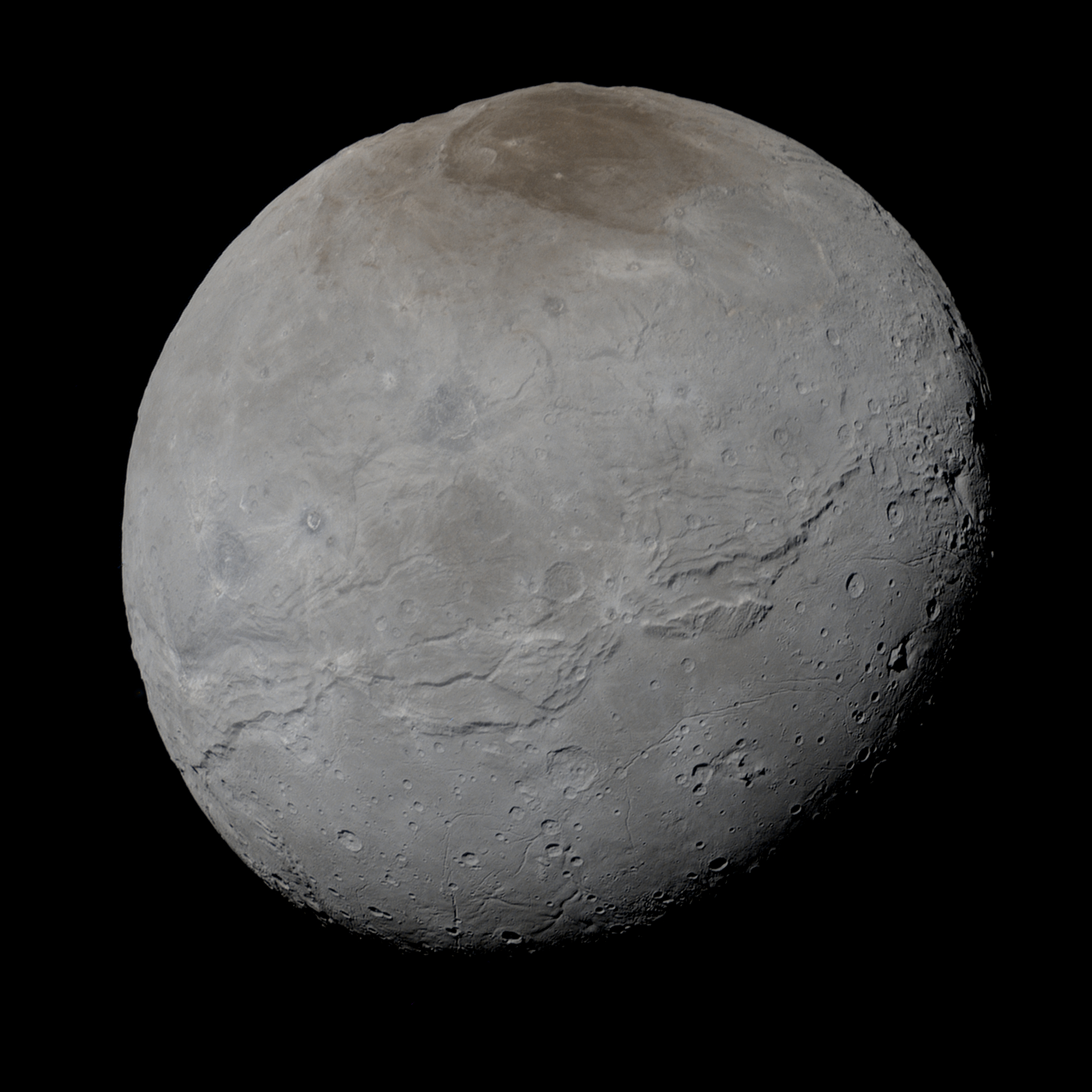 Three years after NASA's New Horizons spacecraft gave humankind our first close-up views of Pluto and its largest moon, Charon, scientists are still revealing the wonders of these incredible worlds in the outer solar system. Marking the anniversary of New Horizons' historic flight through the Pluto system on July 14, 2015, mission scientists released the highest-resolution color images of Pluto and Charon. These natural-color images result from refined calibration of data gathered by New Horizons' color Multispectral Visible Imaging Camera (MVIC). The processing creates images that would approximate the colors that the human eye would perceive, bringing them closer to “true color” than the images released near the encounter. This image was taken on July 14, 2015, from a range of 46,091 miles (74,176 kilometers). This single color MVIC scan includes no data from other New Horizons imagers or instruments added. The striking features on Charon are clearly visible, including the reddish north-polar region known as Mordor Macula.